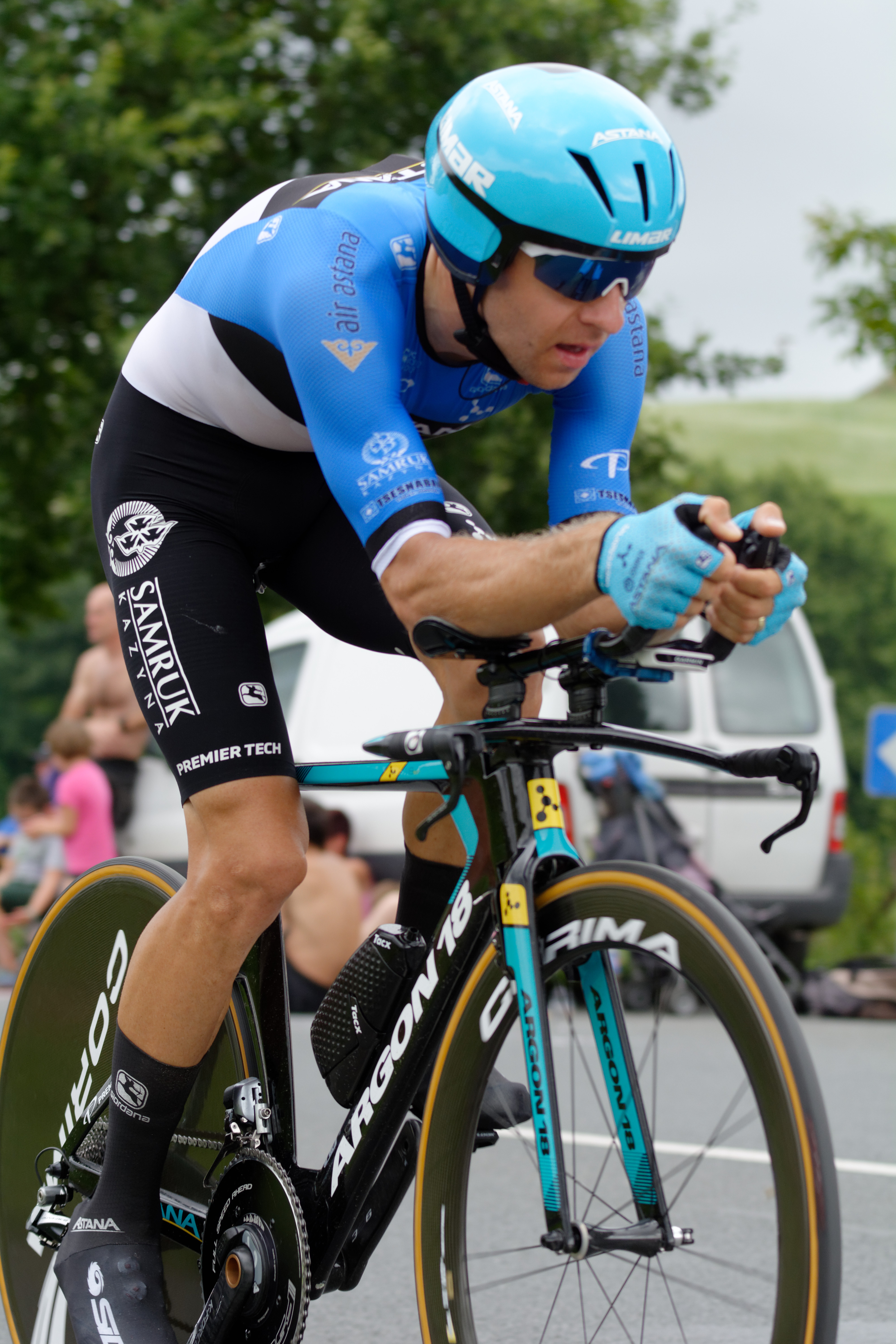 2018 Tour de France